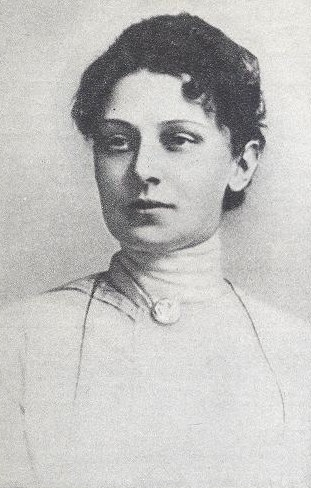 Maria Koszutska (d. 1939) Leader and theoretician of the Polish Socialist Party "Left" faction(Polska Partia Socialistyczna, PPS — Lewica) and later of the Communist Party of Poland (KPP). Died during Stalin's Great Purge in Soviet prison.